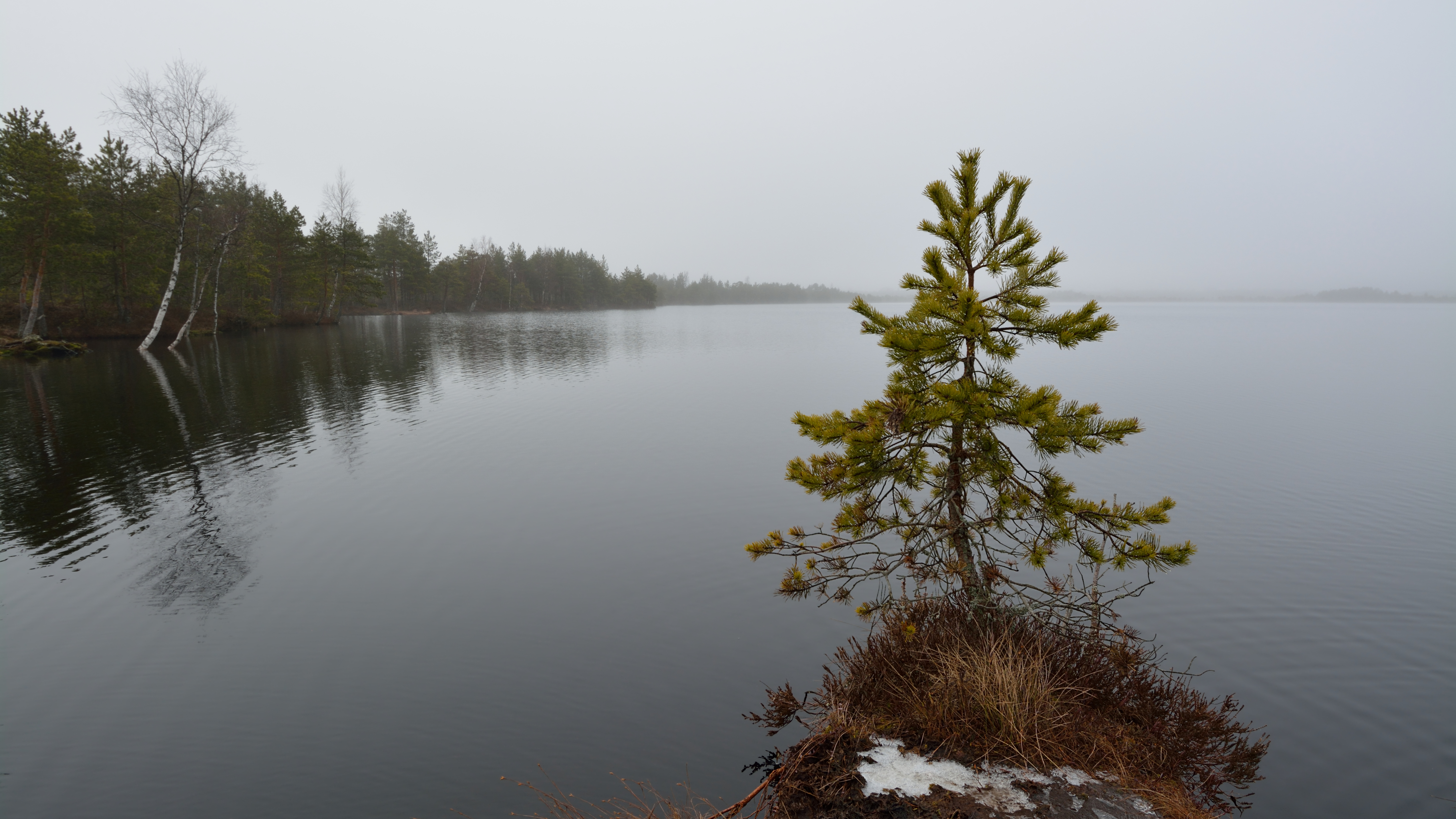 Morning mist on the Loosalu lake, with small pine (Pinus sylvestris) on the shore.